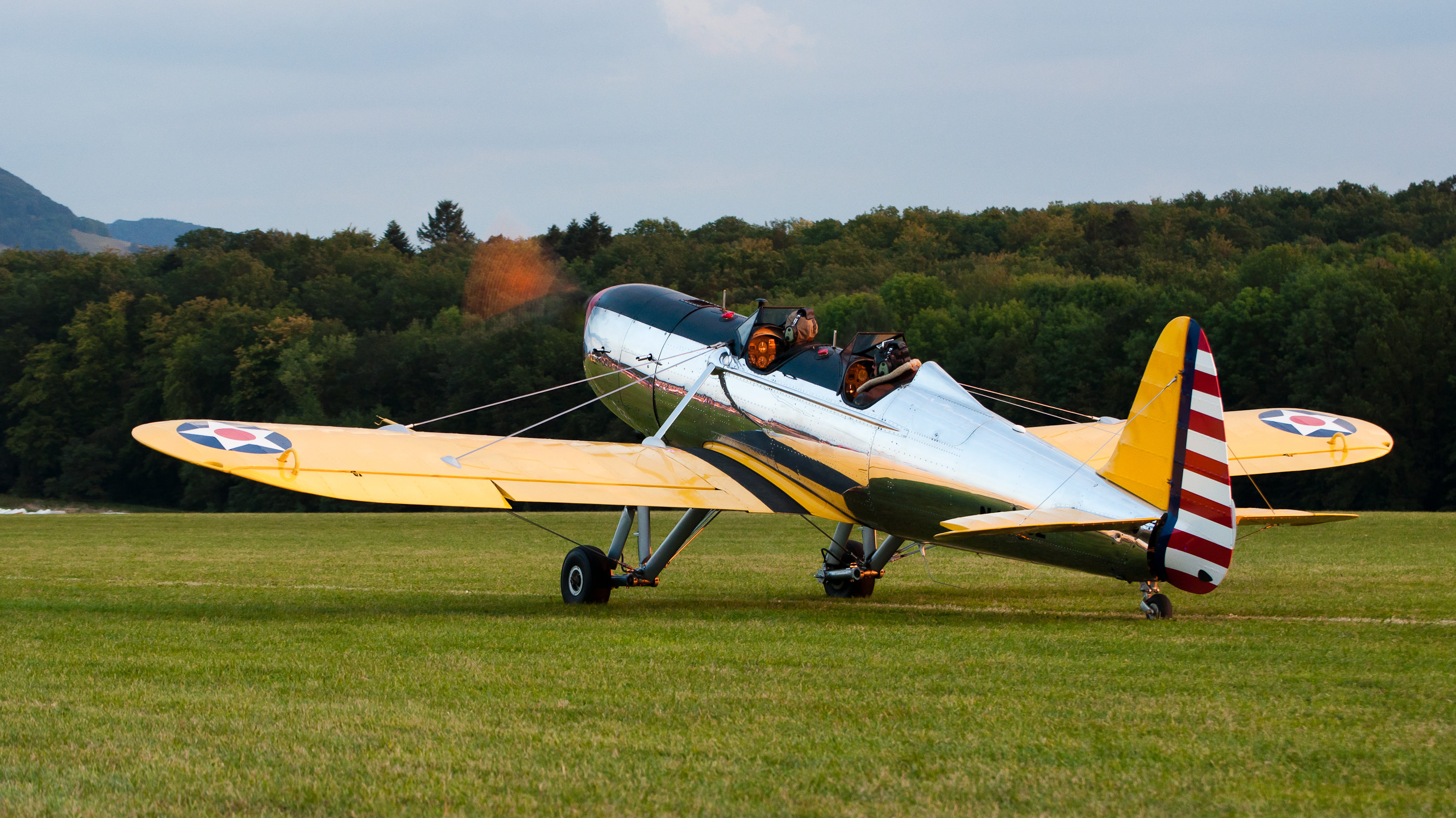 Ryan PT-22 Recruit (ST3KR) (reg. N46502, cn 1995, built in 1943). Engine: Ranger C5 440 inline. This photo was taken at the 17th Oldtimer Fliegertreffen Hahnweide from September 6 to 8, 2013. The making of this document was supported by the Community-Budget of Wikimedia Germany.